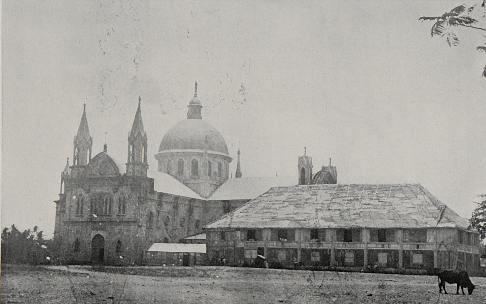 Old cathedral in Oton. Consecrated 1891, destroyed by earthquake 24. Jan. 1948.